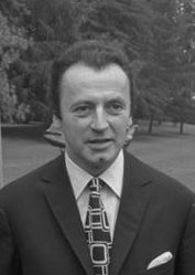 Title: Bonn, Bundeskanzler Brandt empängt Schauspieler People in the image: Eddi Arent Factual corrections and alternative descriptions are encouraged separately from the original description. Additionally errors can be reported at this page to inform the Bundesarchiv. Original historic description: Bundeskanzler Willy Brandt empfängt Filmschauspieler